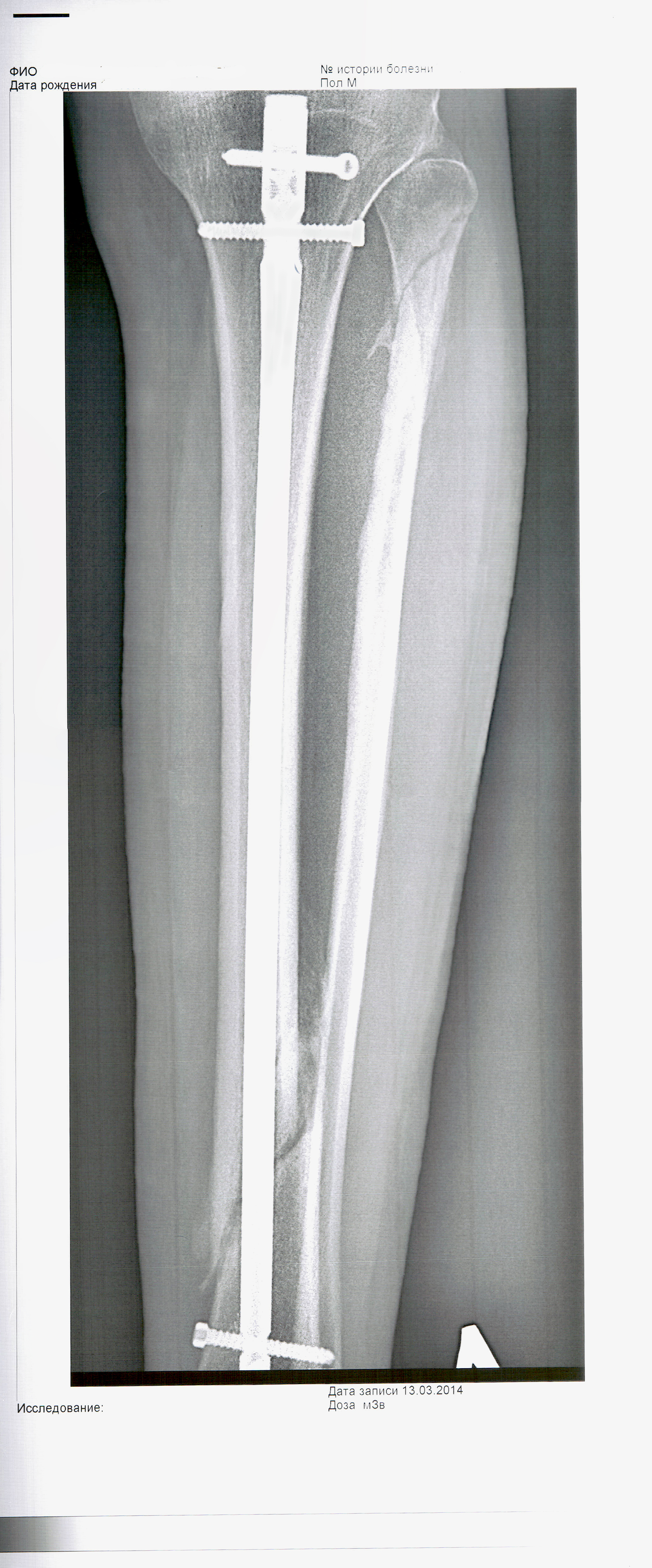 The treatment method of osteosynthesis for multiple fractures of large and small tibial bones. X-ray picture of the implant installed. The formation of a callus in the lower part of the shaft of the tibia and at the site of a comminuted fracture in the upper part of the shaft of the tibia.